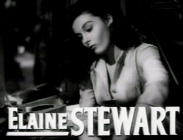 Cropped screenshot of Elaine Stewart from the trailer for the film The Bad and the Beautiful.